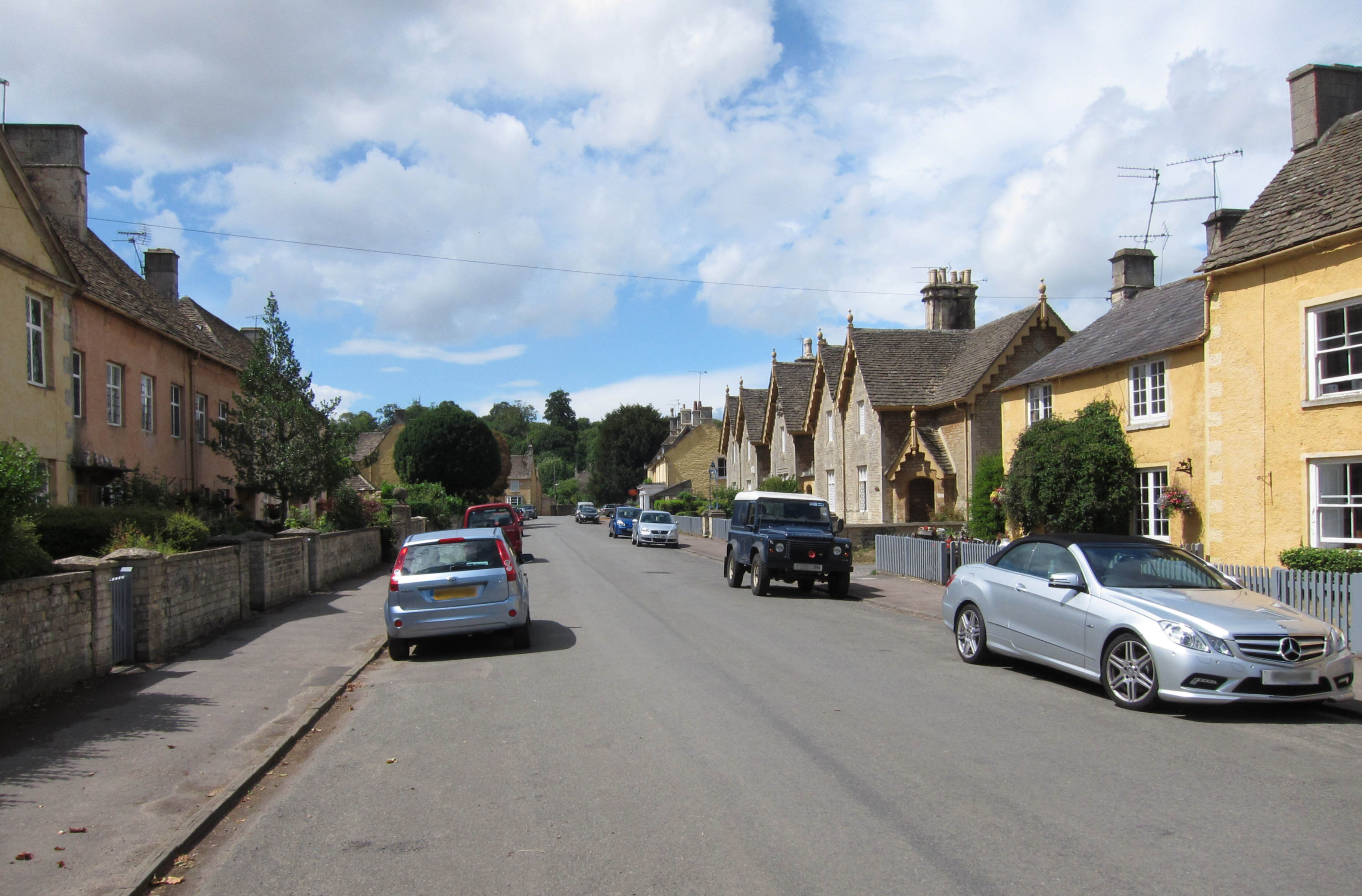 The main street, Badminton, South Gloucestershire, England.